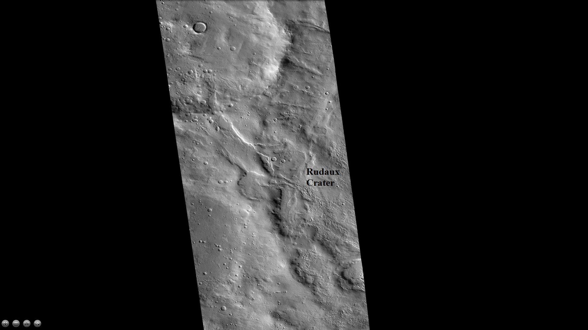 West rim of Rudaux Crater, as seen by ctx